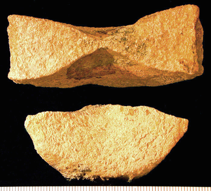 Ichthyosaur vertebrae from the Sundance Formation (Jurassic) of southern Wyoming.